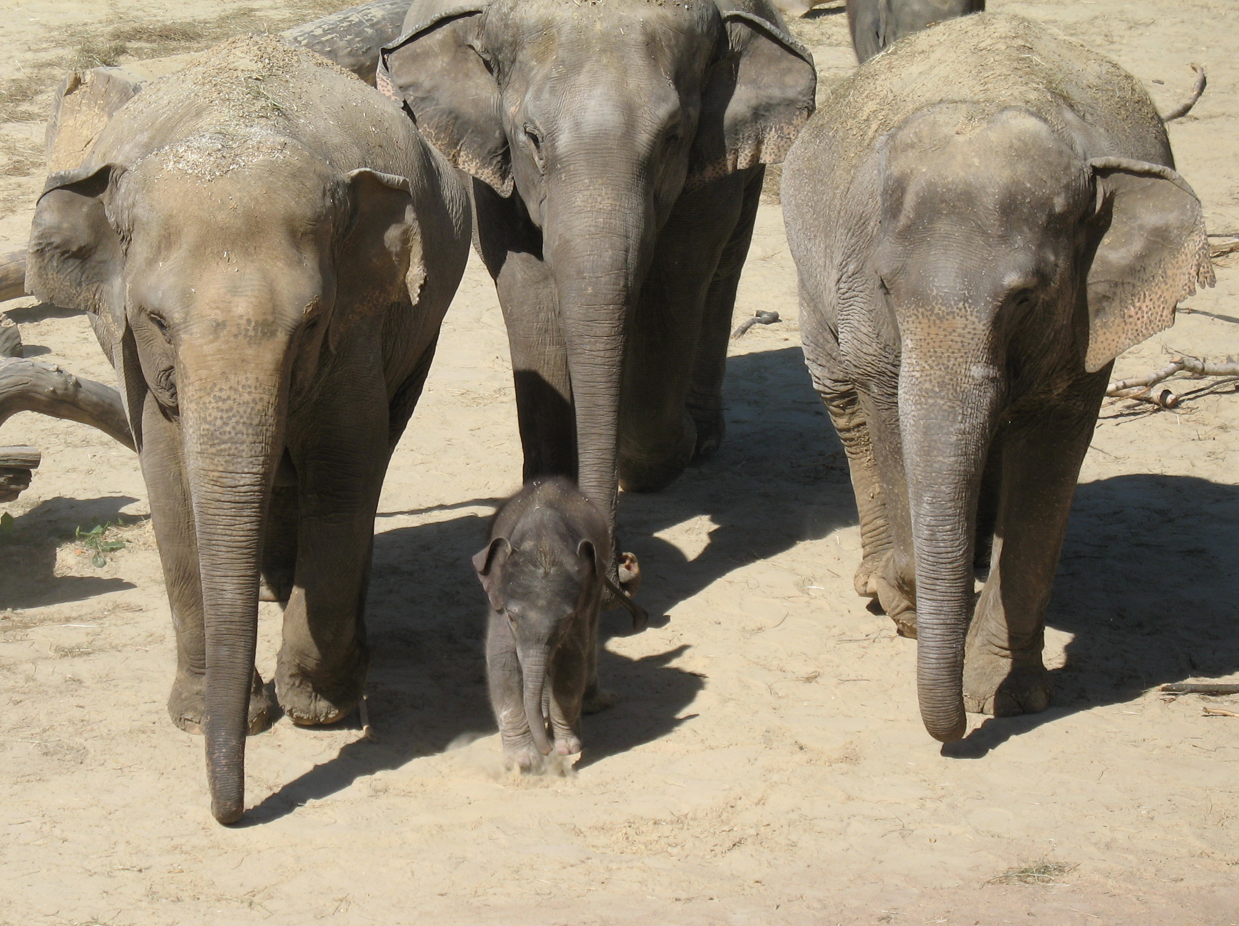 Elephant baby "Ming Jung" ("My Boy") of Cologne Zoo